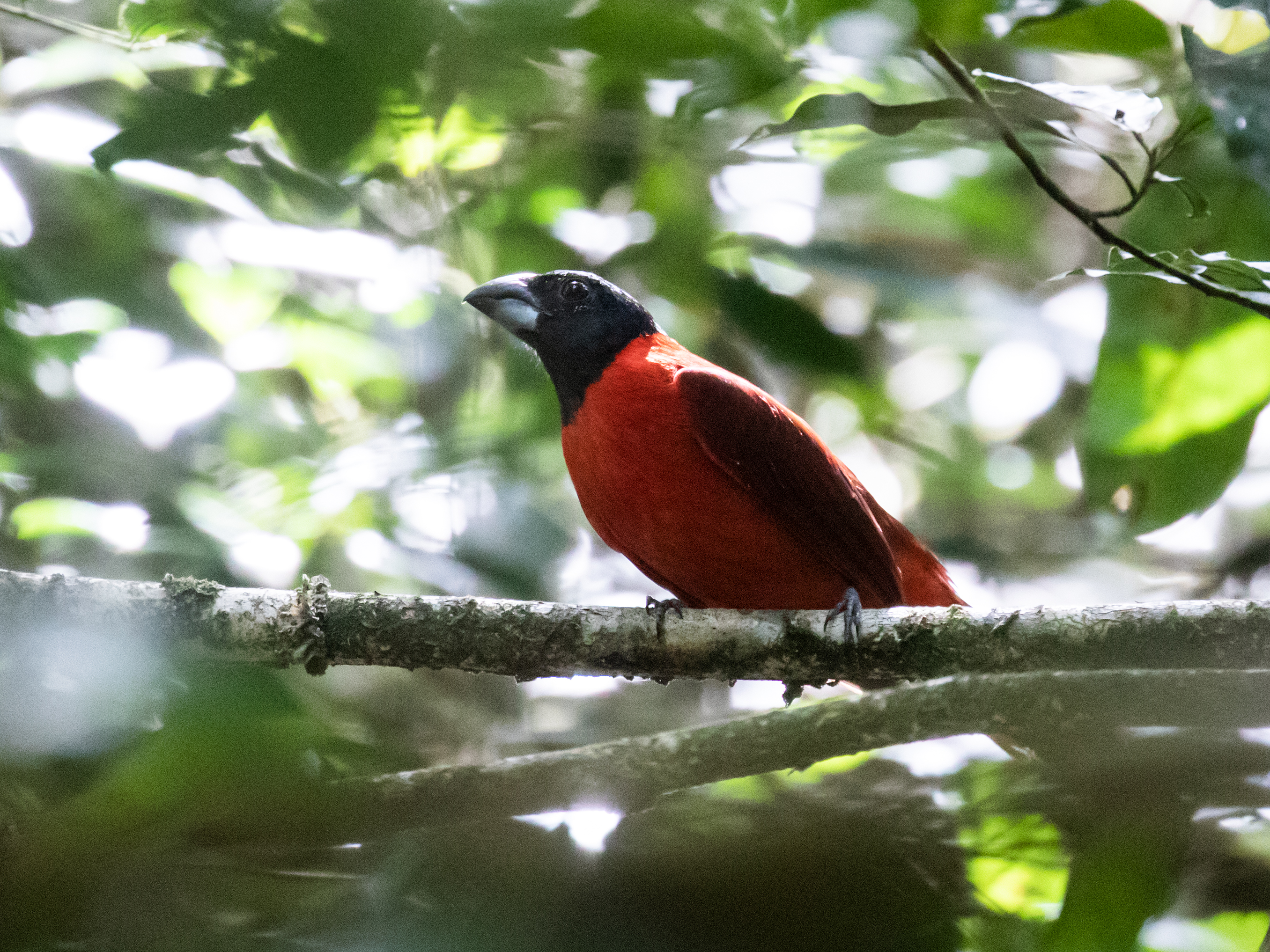 A male Red-and-black Grosbeak from Brownsberg Nature Park, Brokopondo, Suriname.